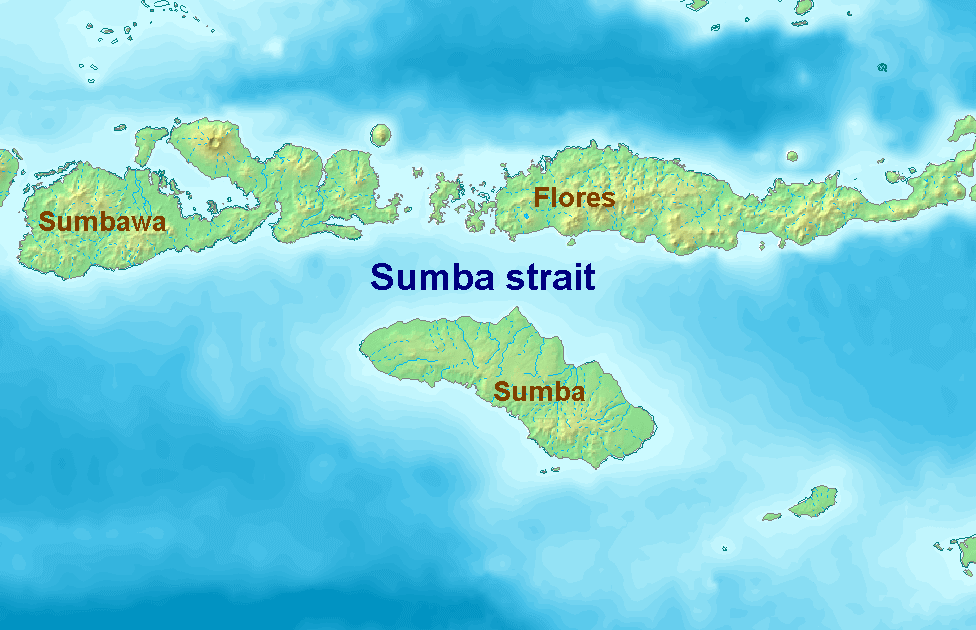 Sumba Strait